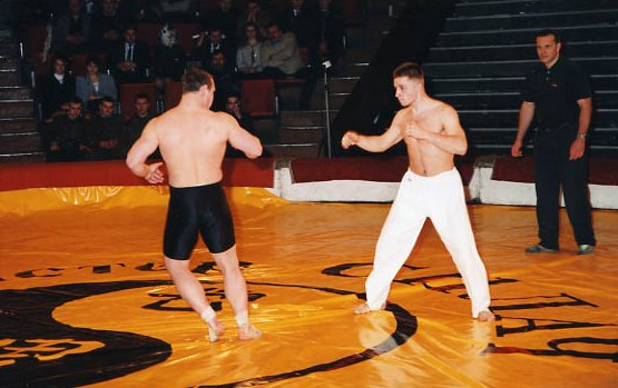 a retired Ukrainian mixed martial artist, Igor Vovchanchyn